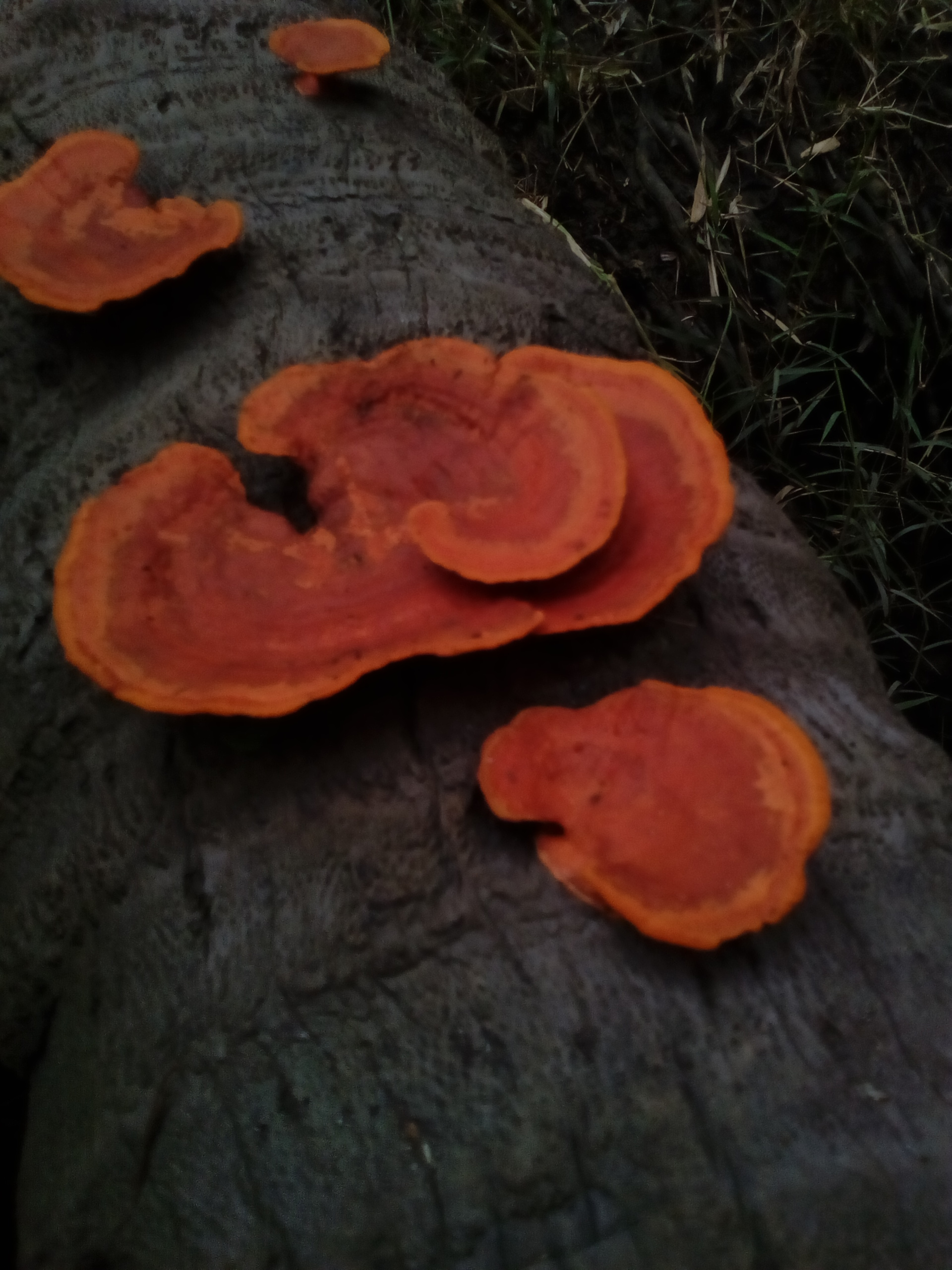 Mushroom नेपाली: च्याउ